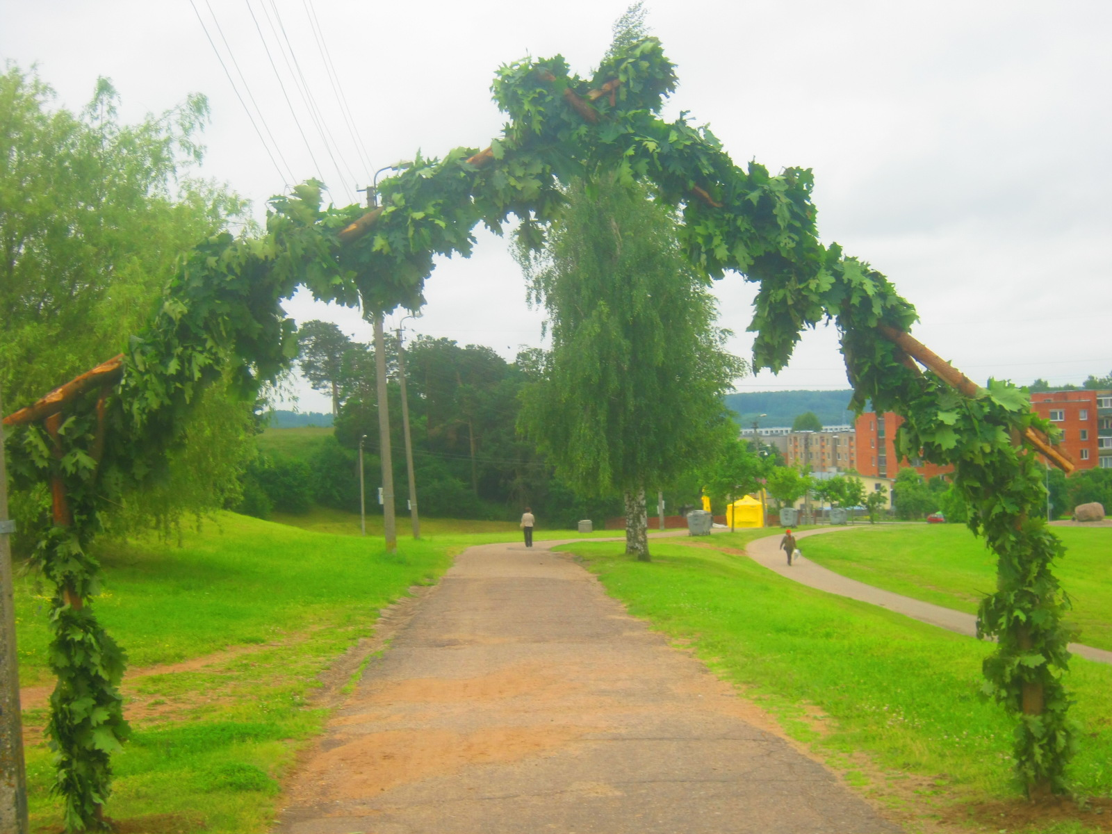 Midsummer holiday in Jonava, Day 2, Empty Campus, Gates